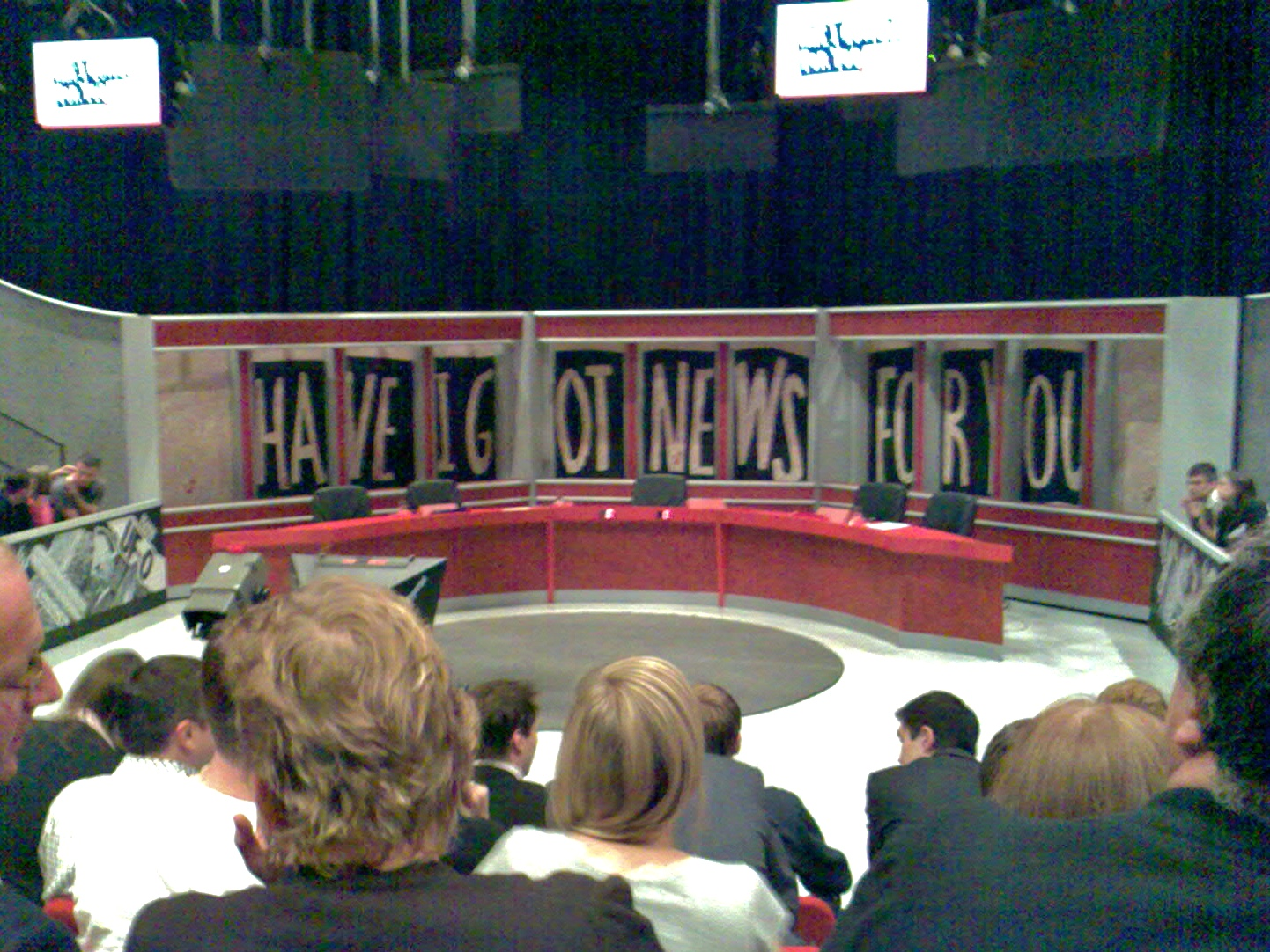 Well, that was HUGE fun ;-)) Kirsty Young at her gorgeous best, Hislop & Merton on fine form, and the other guests (Dr Phil Hammond & Bob Marshall-Andrews) were excellent. Looking forward to watching the final recording tonight ... Please note: Using this image might affect the rights of the BBC. See discussion at Commons:Deletion requests/Image:HIGNFY set empty.jpg